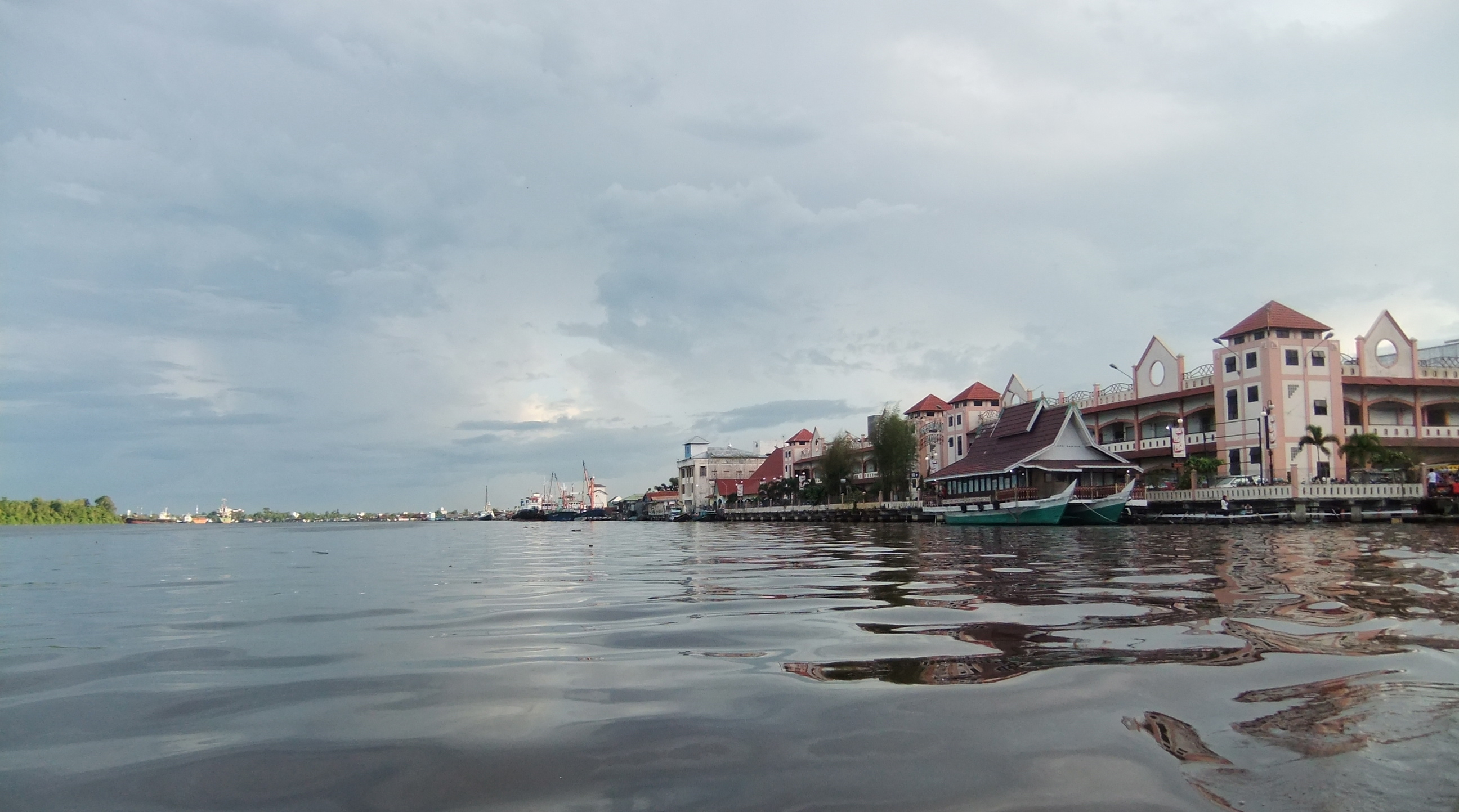 Mentaya Shopping Center by the Mentaya River, Sampit City, Central Kalimantan